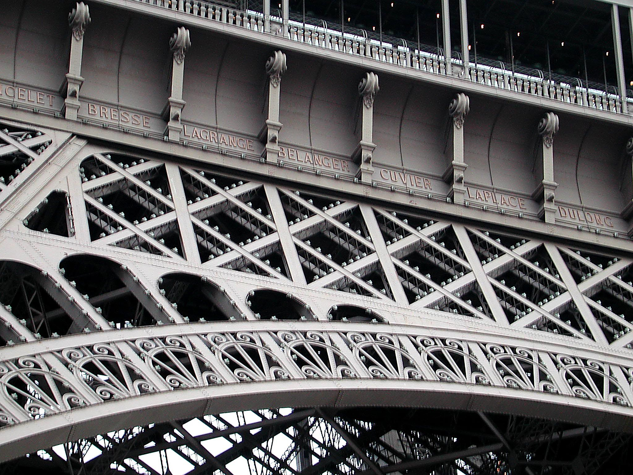 Tower Eiffel names